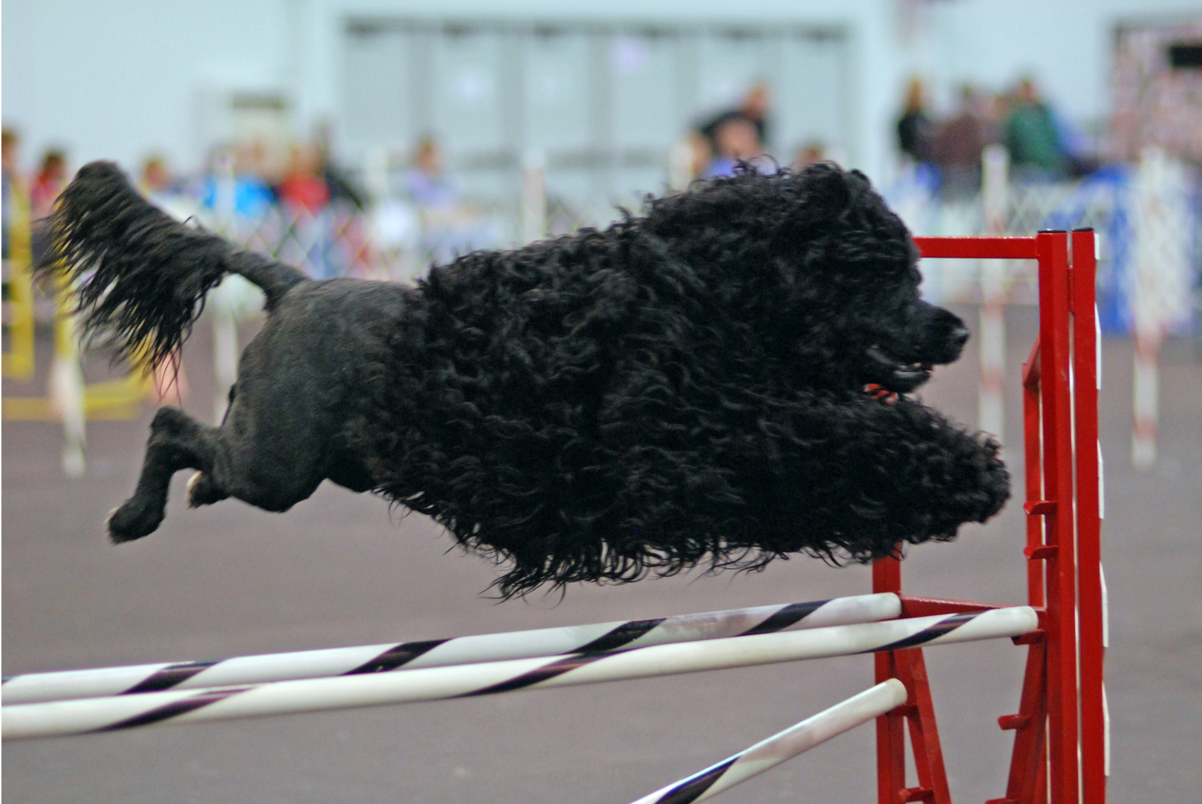 A Portuguese Water Dog in a dog agility competition at the Rose City Classic dog show 2007 in Portland, Oregon, USA.